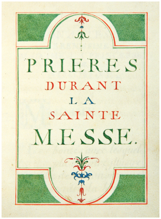 Siméon Le Couteux, Prières durant la Sainte Messe, c. 1705.